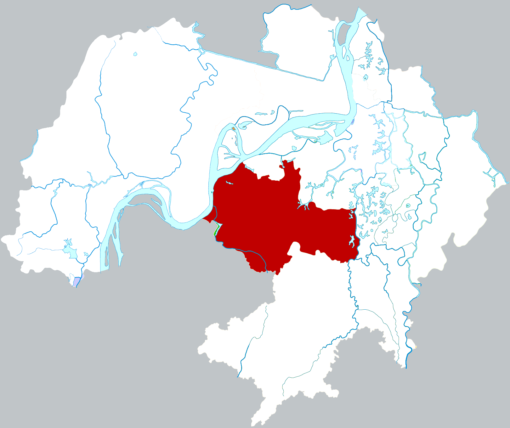 Location of Fanchang county in Wuhu city, China